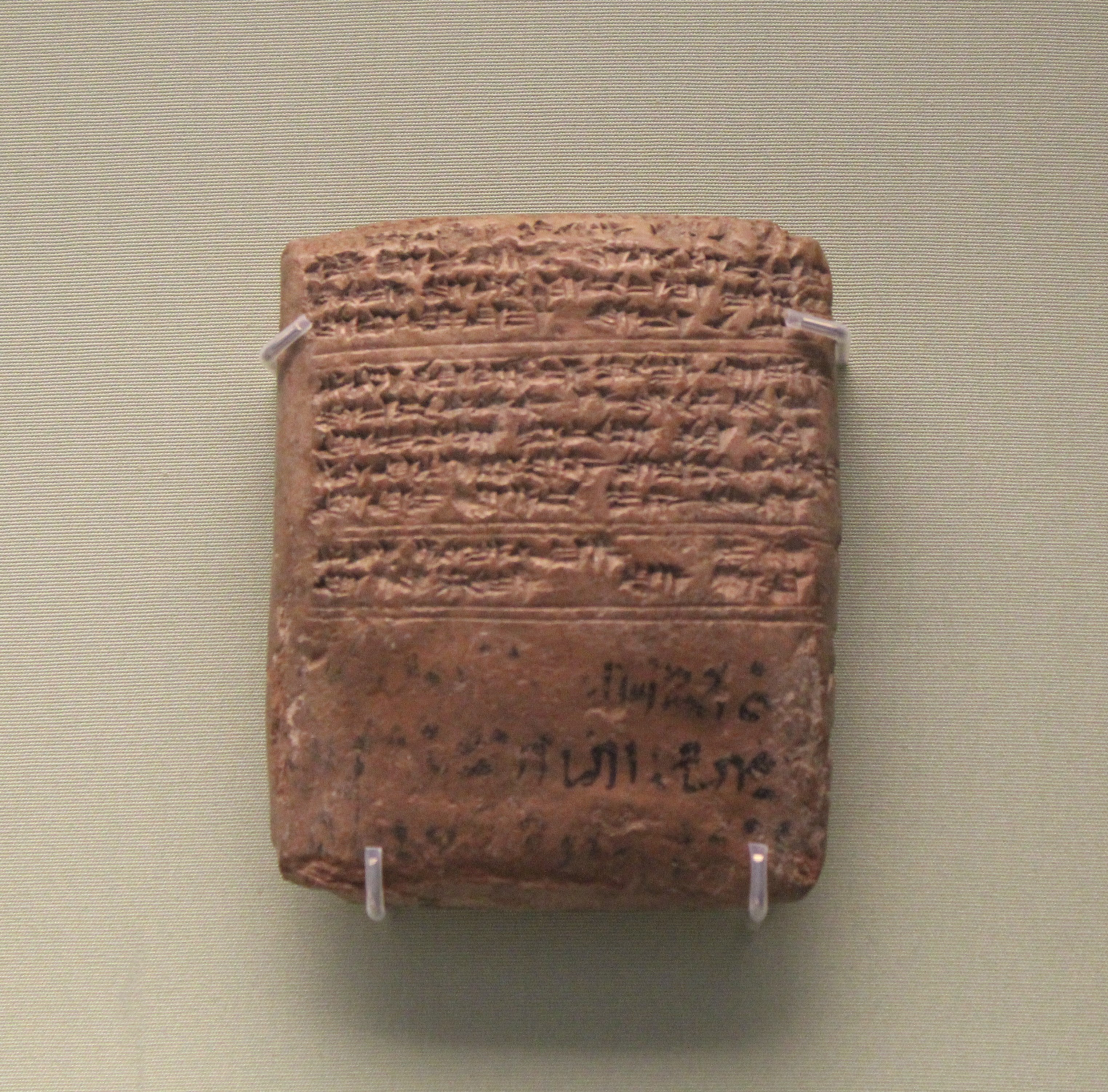 Amarna letter EA 23 (reverse) : letter from Tushratta of Mitanni to Amenhotep III of Egypt. About the possibility of the statue of goddess Ishtar/Shaushga of Nineveh being sent to Egypt. 3 lines of hieratic writing in the end. C. 1350 BC. E29793.